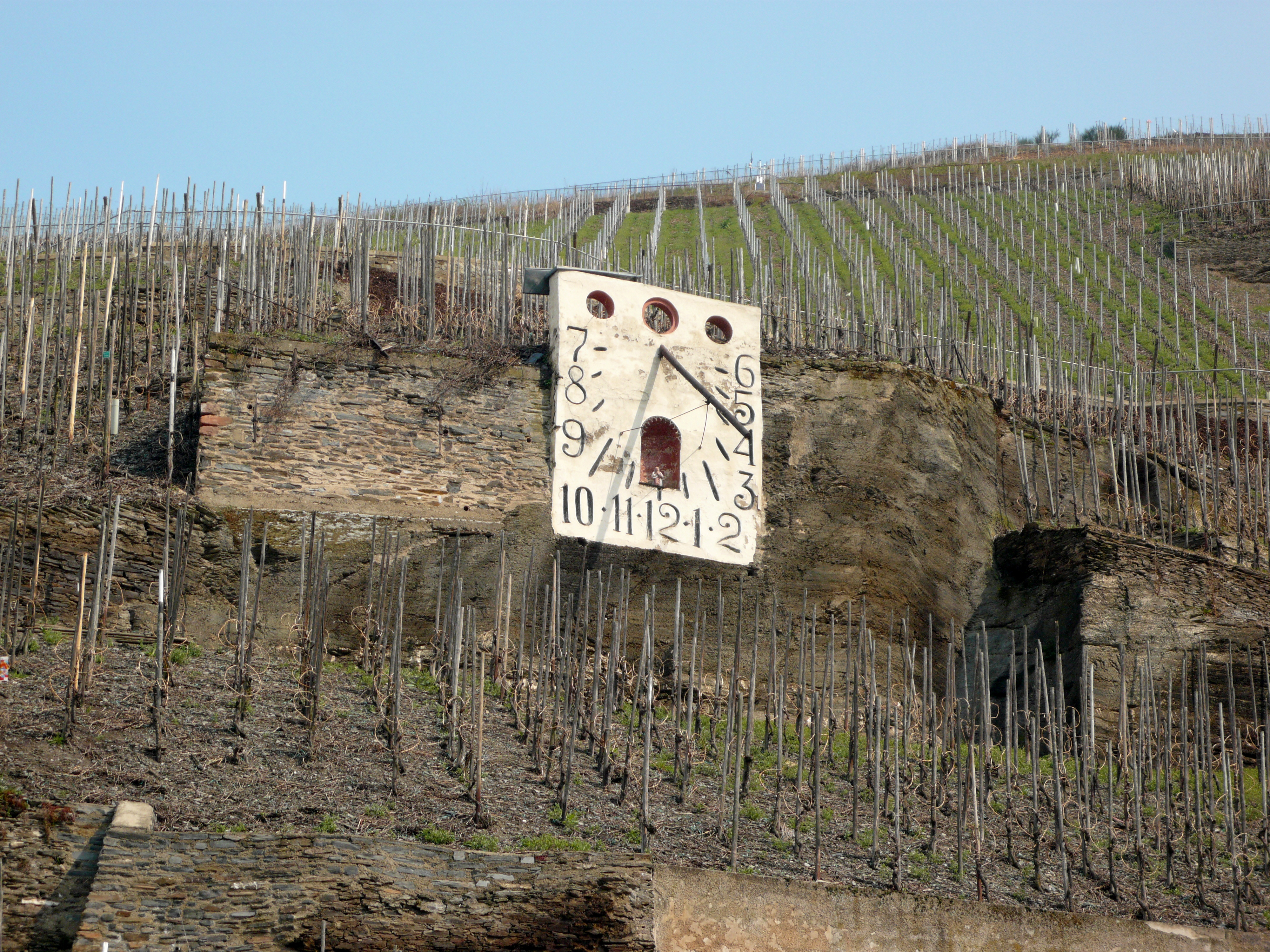 Historical sun clock at Zeltingen, Mosel valley